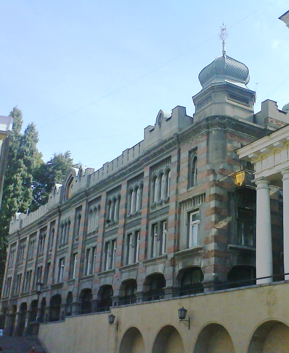 Tbilisi Tbilisi_cemynary